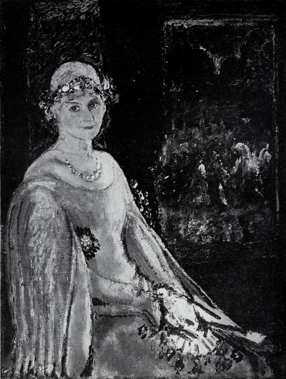 The Black Rosette by Clifford Isaac Addams, exhibited at the 1926 Sesqui-Centennial Exposition, Philadelphia, Pennsylvania.